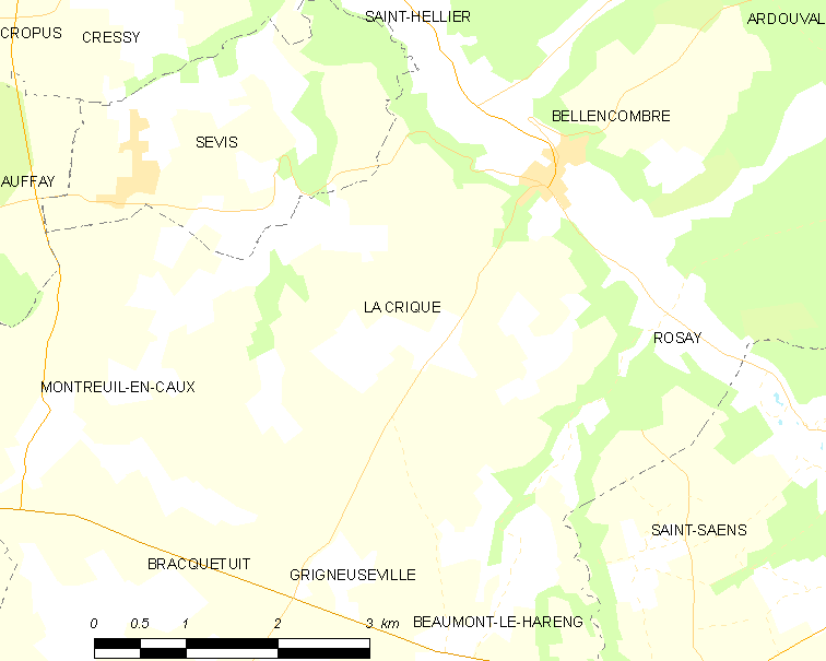 Map of French municipality La Crique